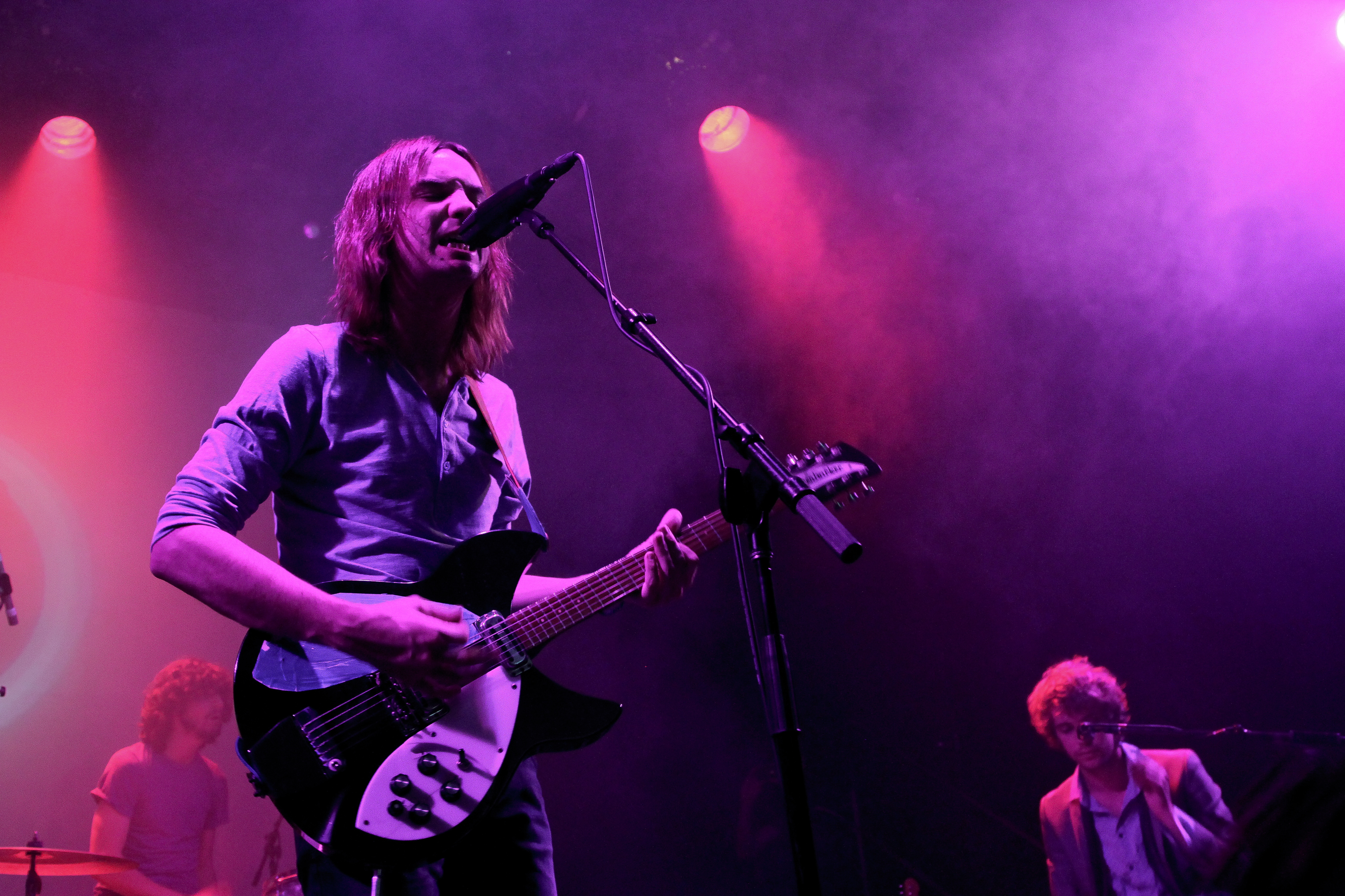 Tame Impala Performing at the Music Hall of Williamsburg in NYC. Photo by Kenny Sun